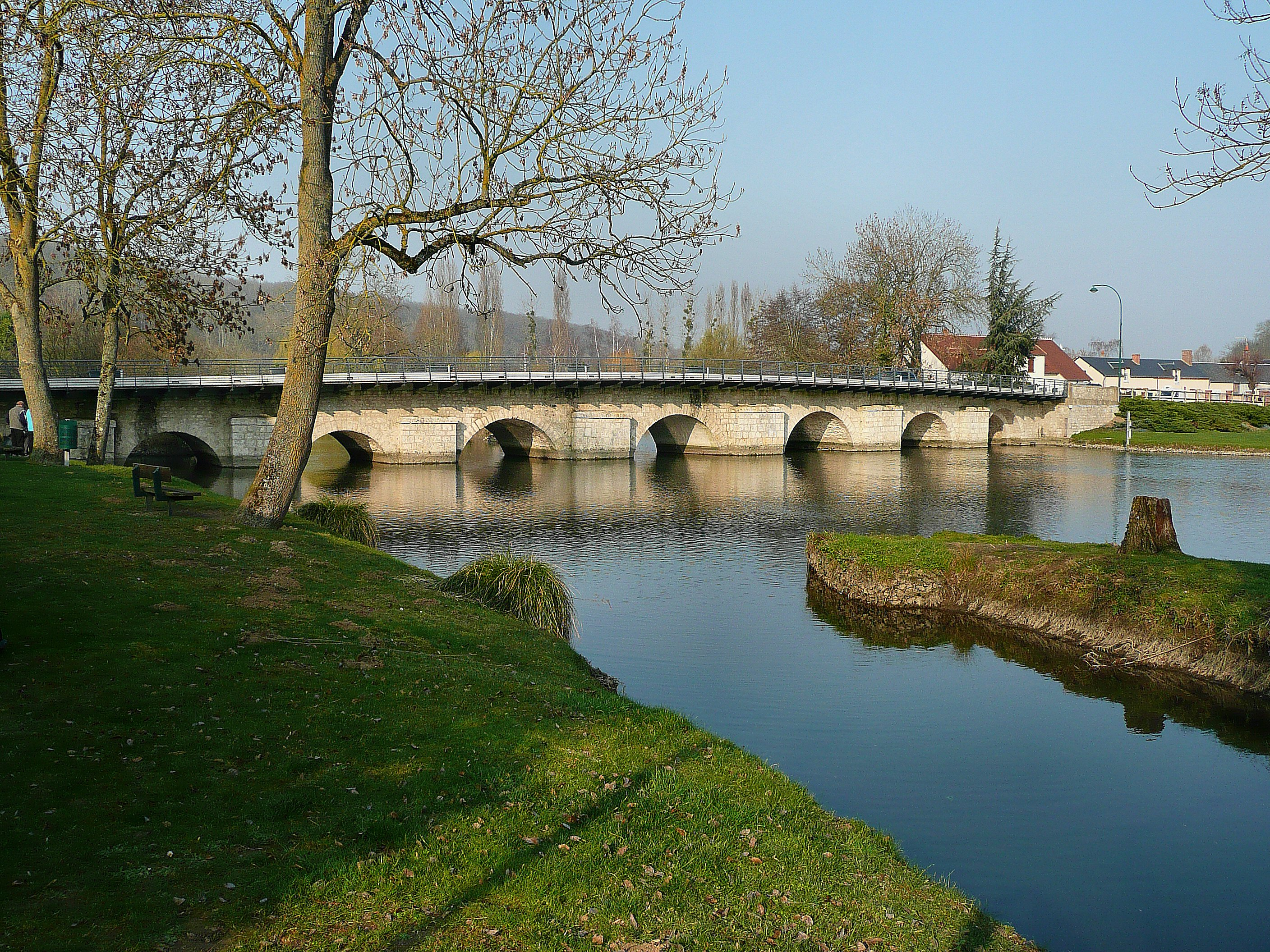 One of the two bridges spanning the Loir at Saint-Denis-les-Ponts